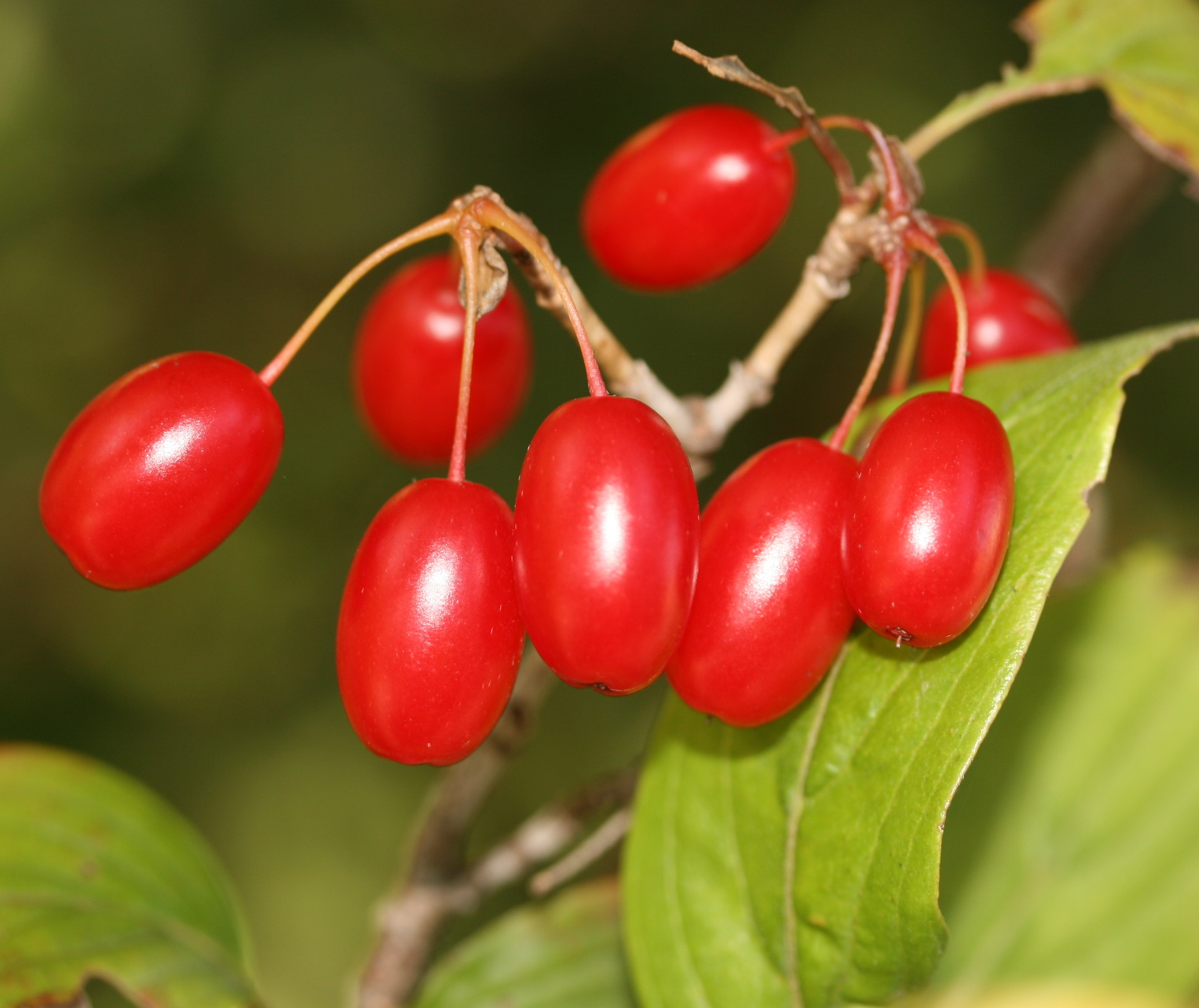 Cornus officinalis